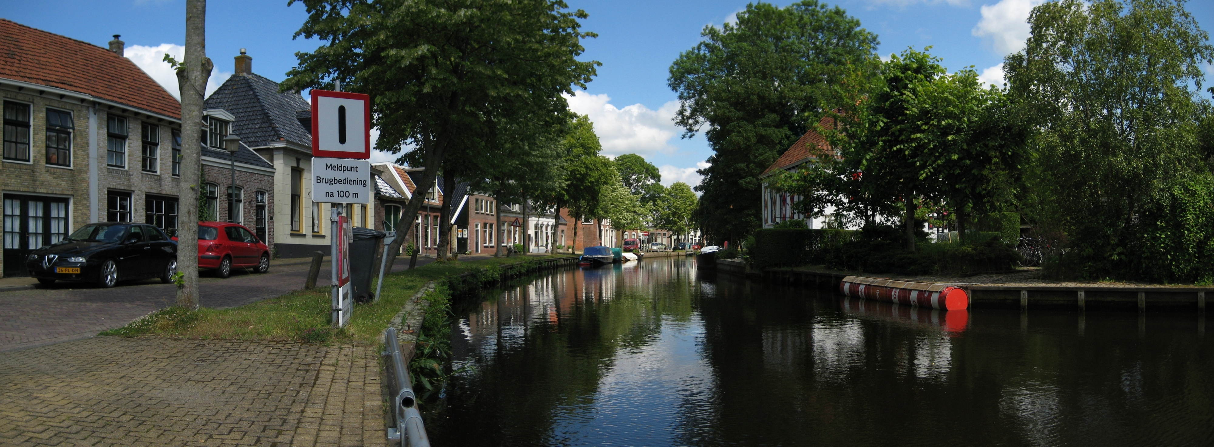 The river Boarn in the Frisian village of Aldeboarn, the Netherlands.